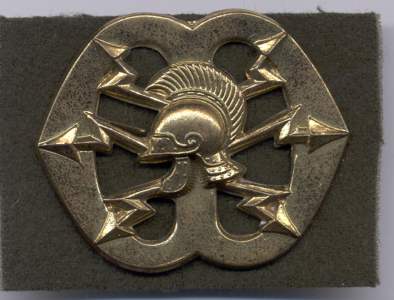 Baret Badge Verbindingsdienst 1st model